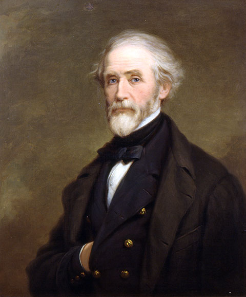 Portrait of Dennis Hart Mahan